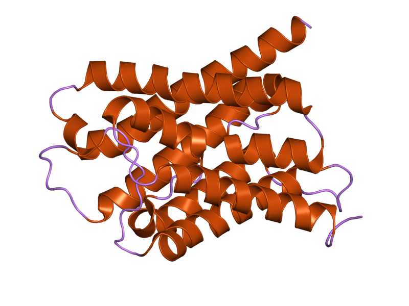 Cartoon representation of the molecular structure of protein registered with 2d57 code.